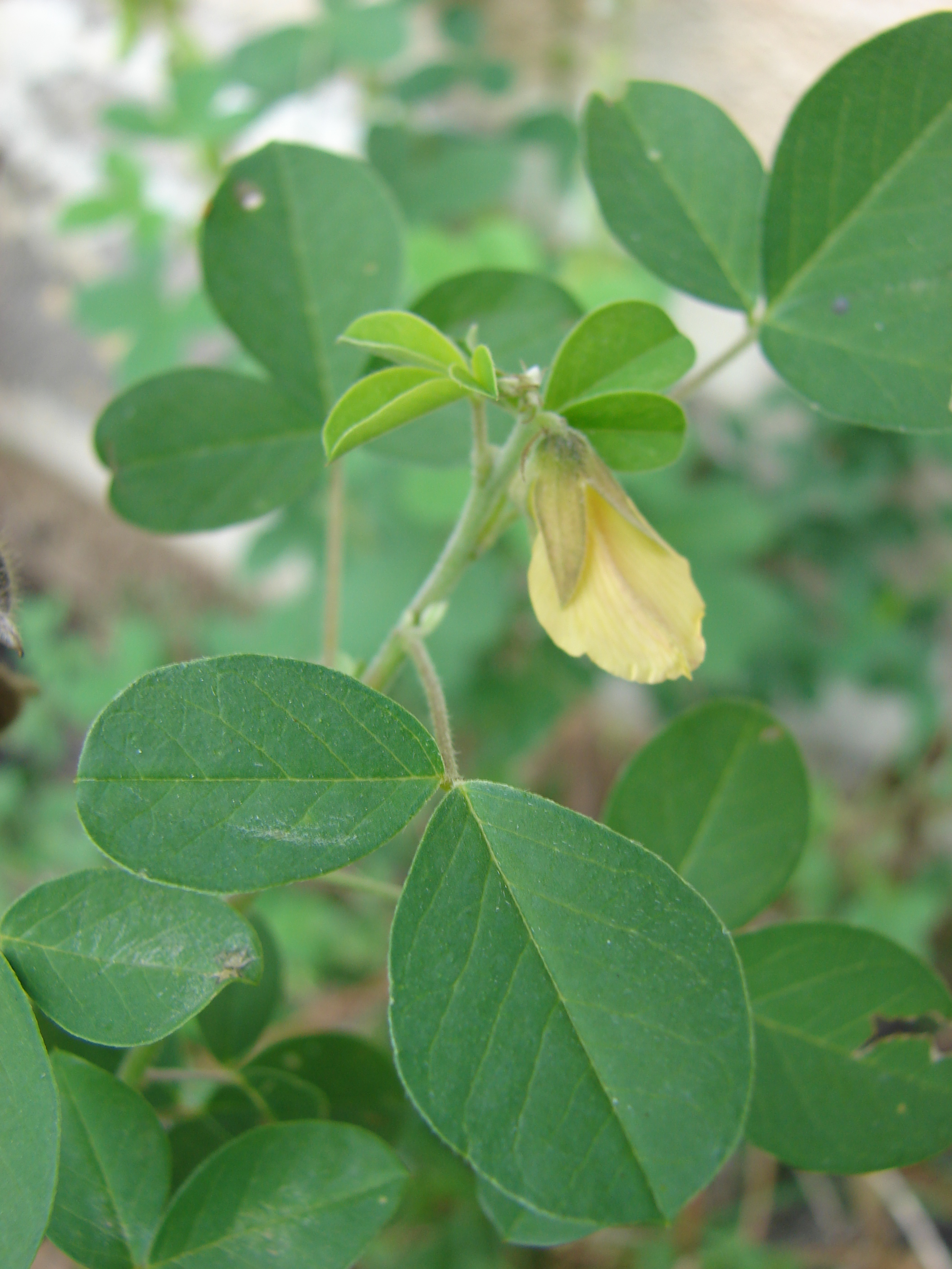 Crotalaria incana (leaves and flowers). Location: Midway Atoll, Cable Company buildings Sand Island